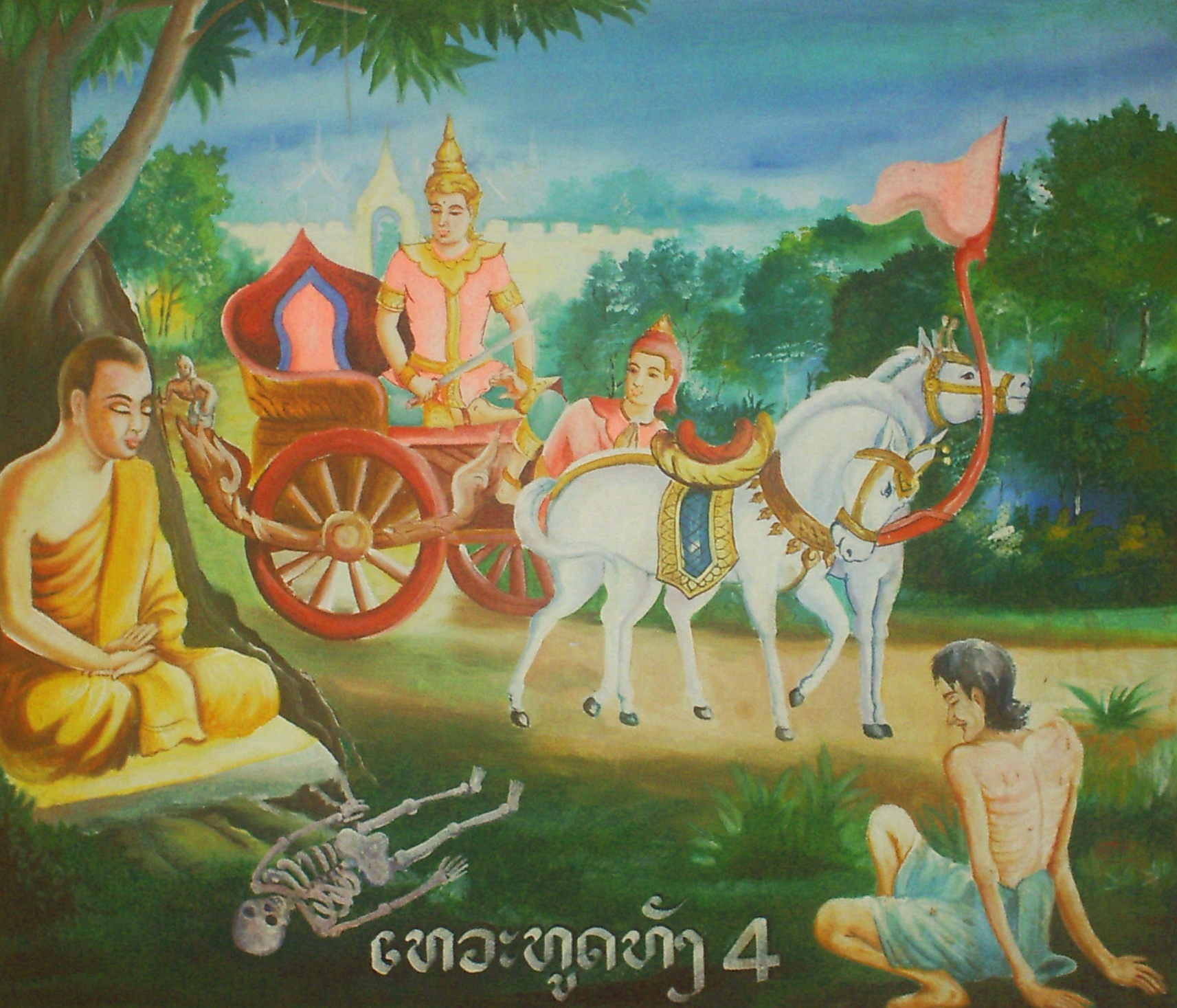 The painting depicts the 4 heavenly messengers which the Bodhisatta Siddhartha Gautama (the Buddha-to-be) encounters on his trips outside the palace: (1) an old man, (2) a sick man, (3) a corpse and a (4) wandering monk.